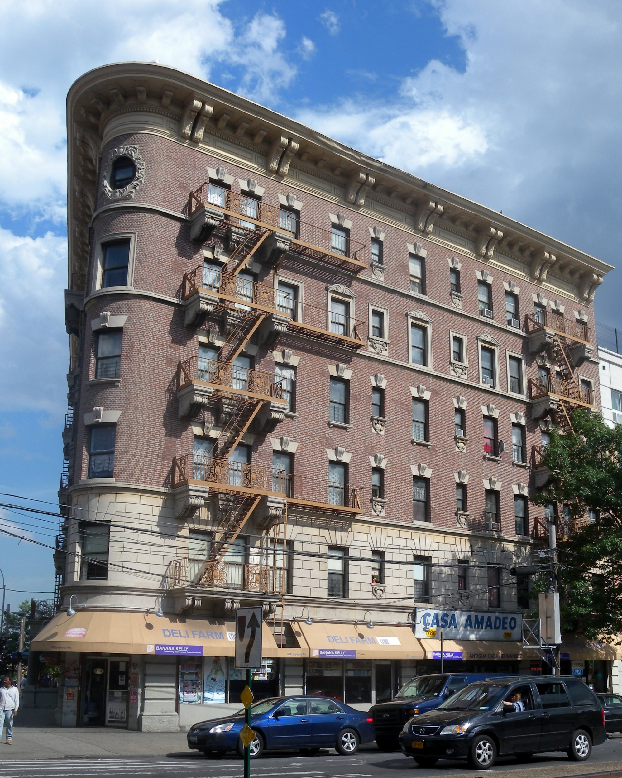 Looking southeast from under the track at Casa Amadeo on a mostly sunny afternoon.